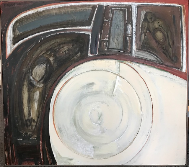 'Search' by Guy Anderson, Oil on board, 40 x 65 in, 1967-68, From the Collection of the late Dr. Donald Wampler at Cassera Gallery